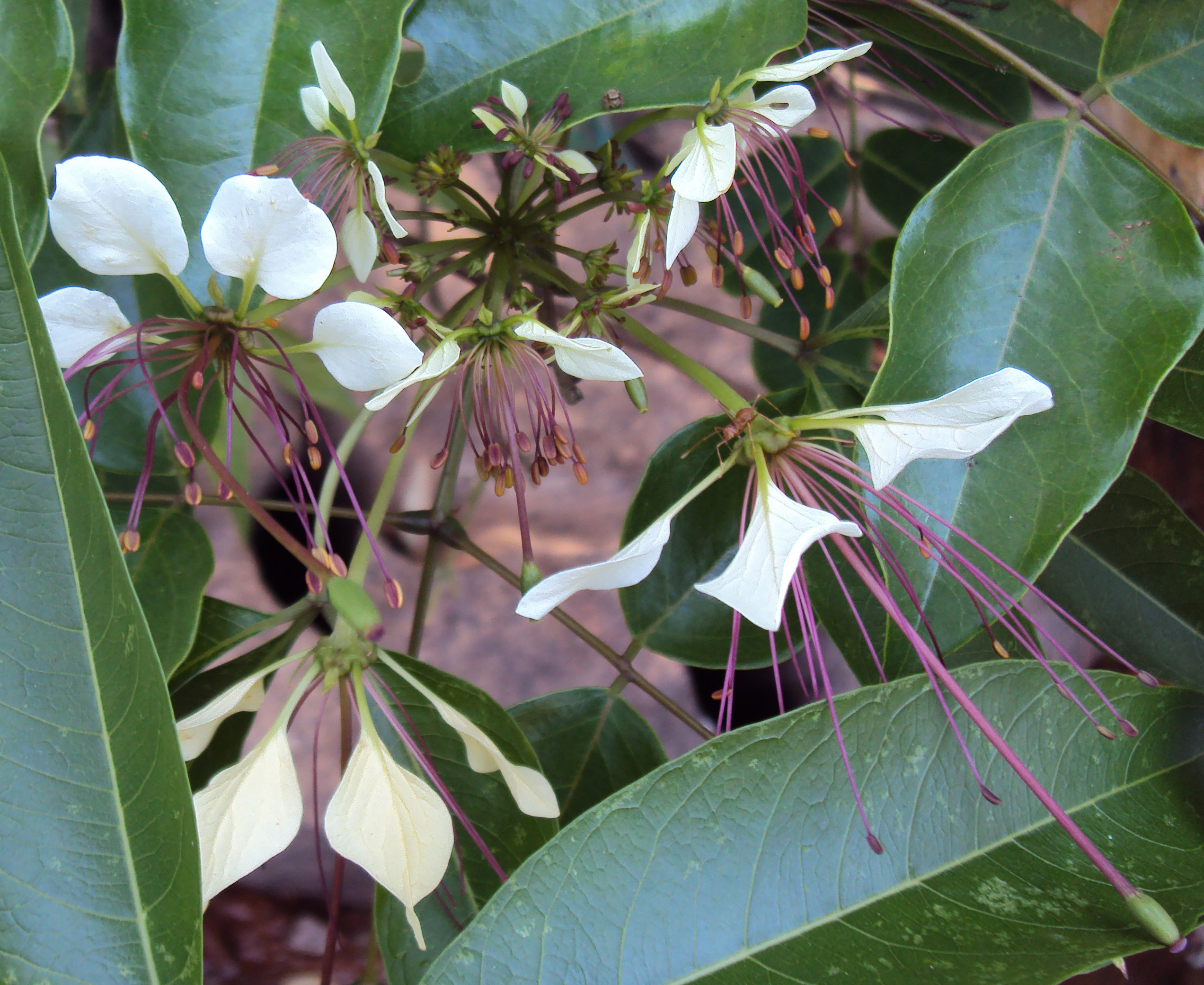 Crataeva magna